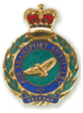 Air Transport Auxiliary Veteran's Badge